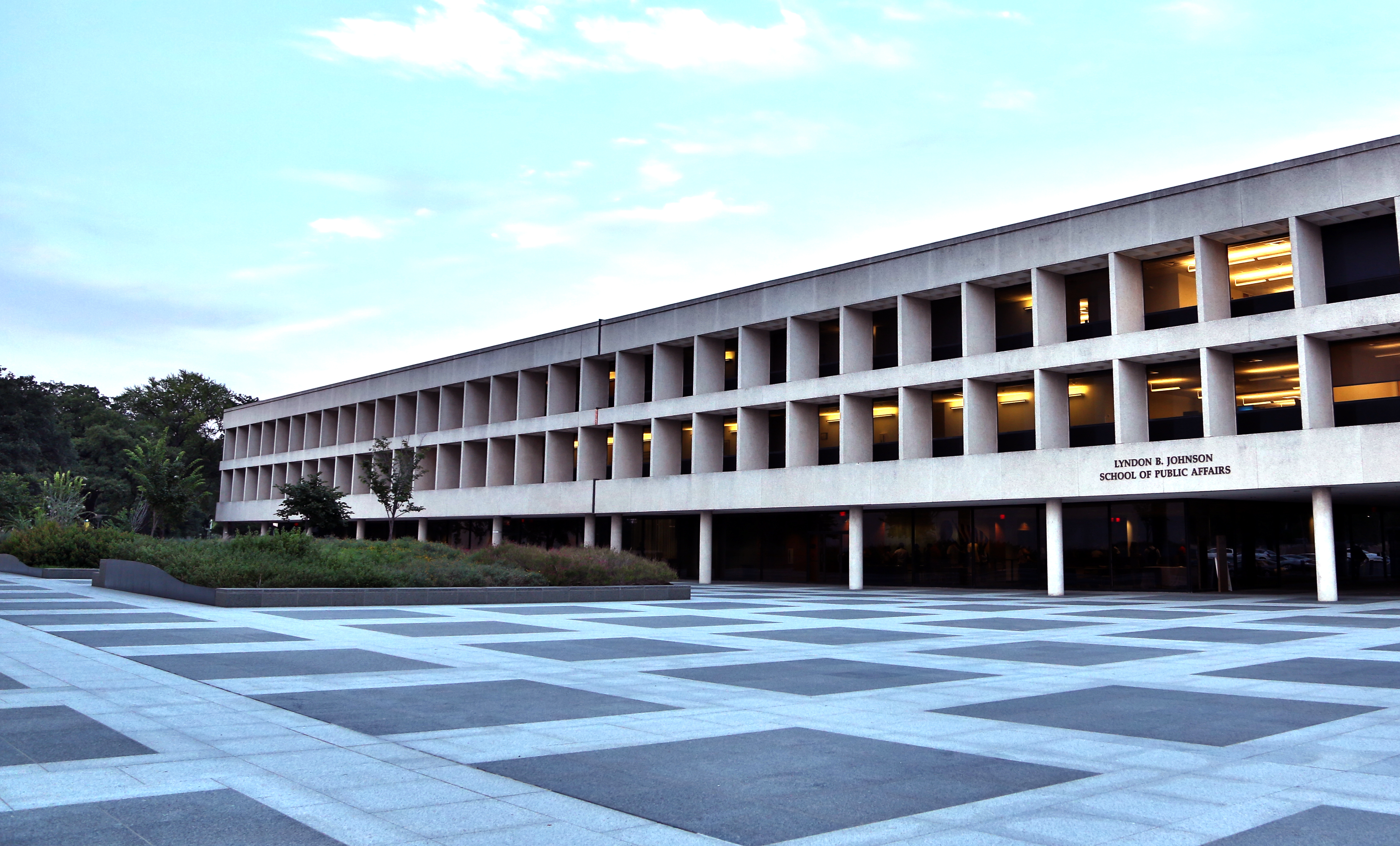 LBJ School exterior shot